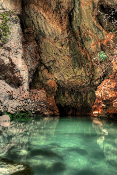 Peć mlini, river Tihaljina, Grude